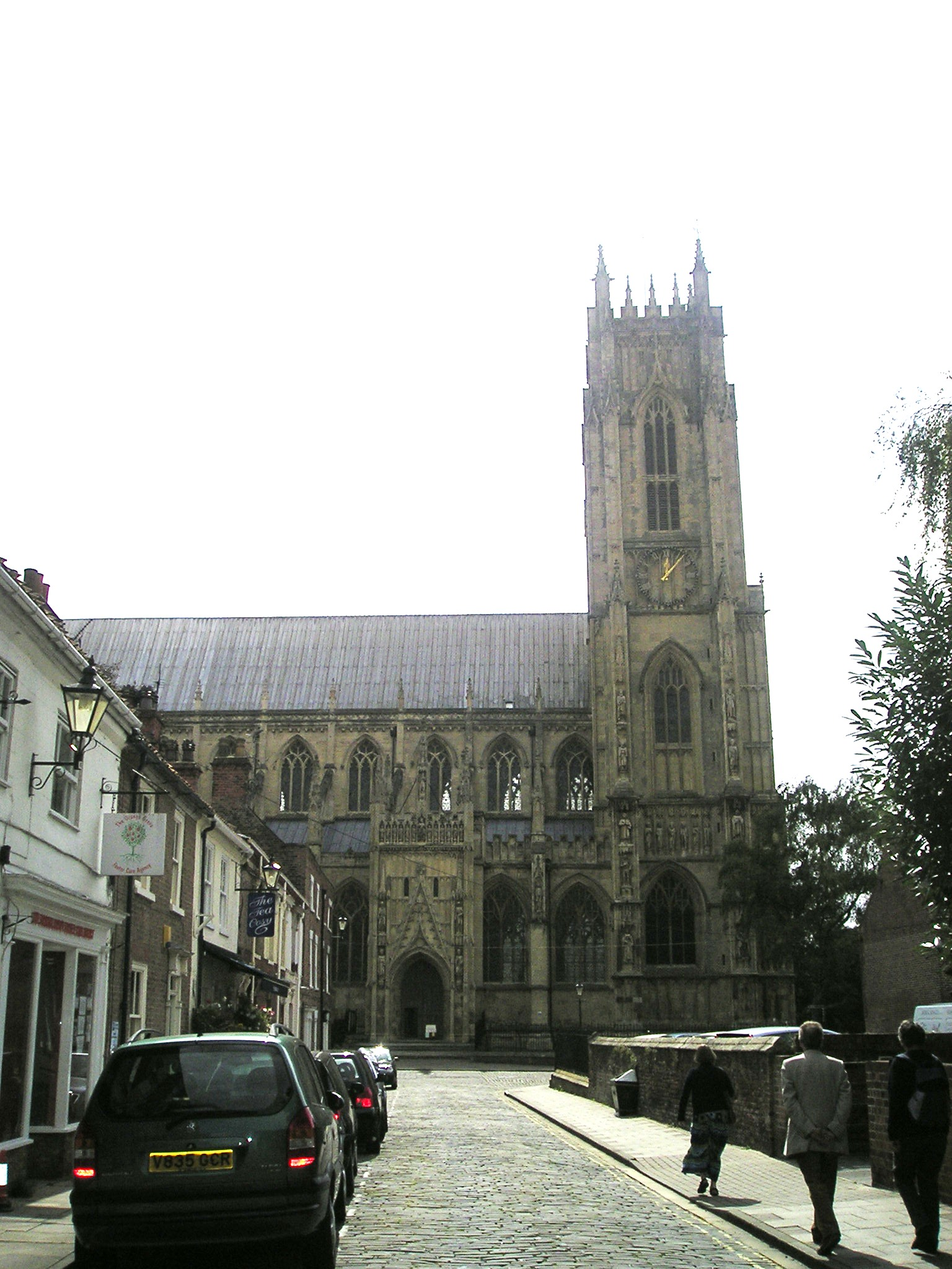 North side of nave of Beverley Minster, Beverley, East Riding of Yorkshire, England.Viewed from Highgate.